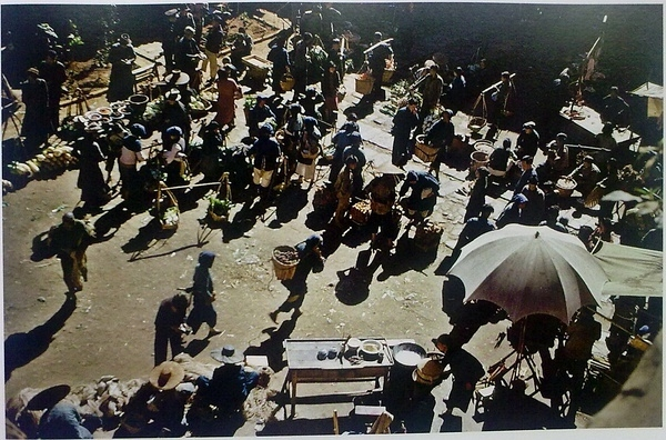 a bazaar in Kunming